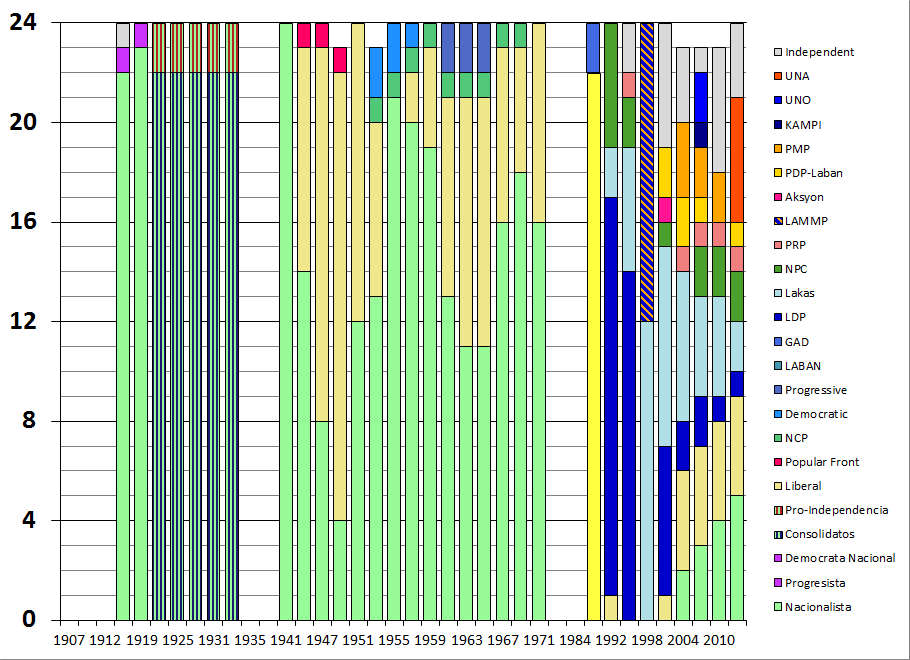 Party affiliations in the Senate of the Philippines from the 1st Commonwealth Congress to the 15th Congress.